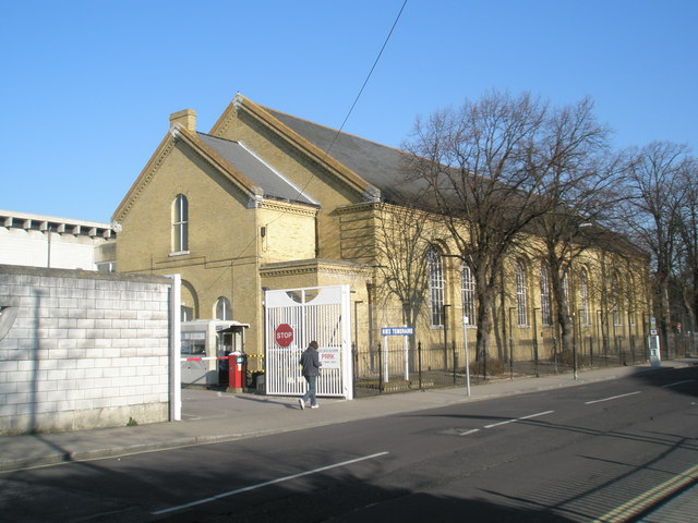 HMS Temeraire